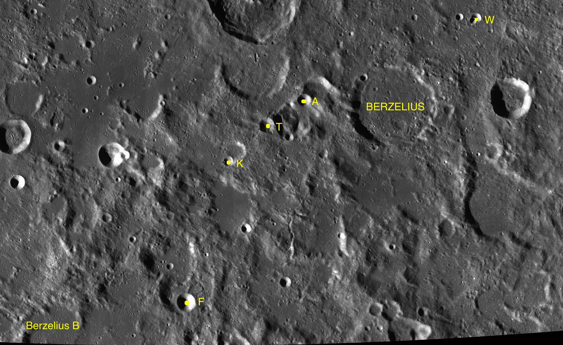 Part of the chart LAC-27 used for the presentation